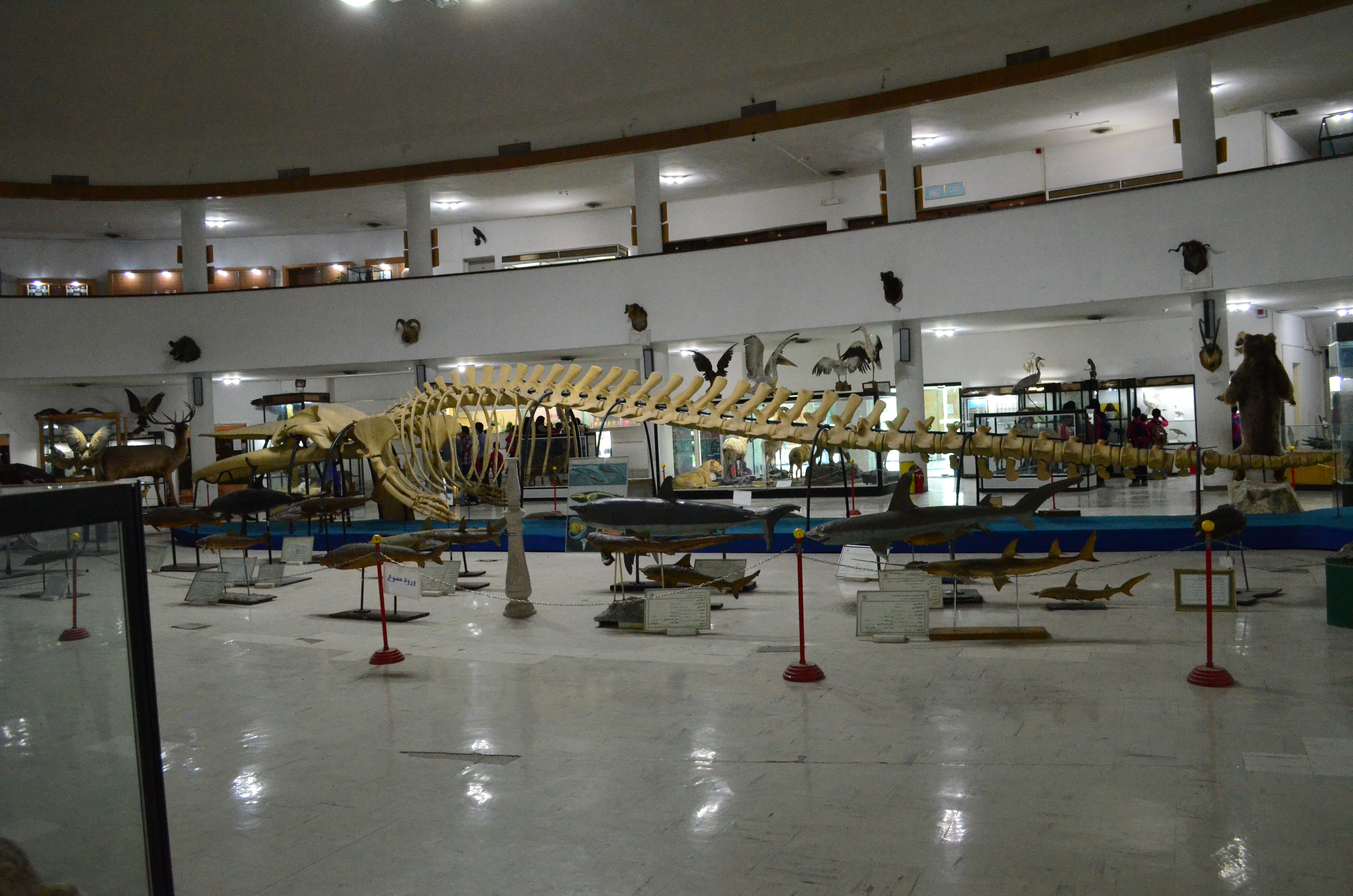 Natural History and Technology Museum of Shiraz University